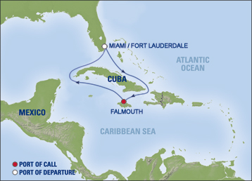 Sailing route 70000 TONS OF METAL 2016